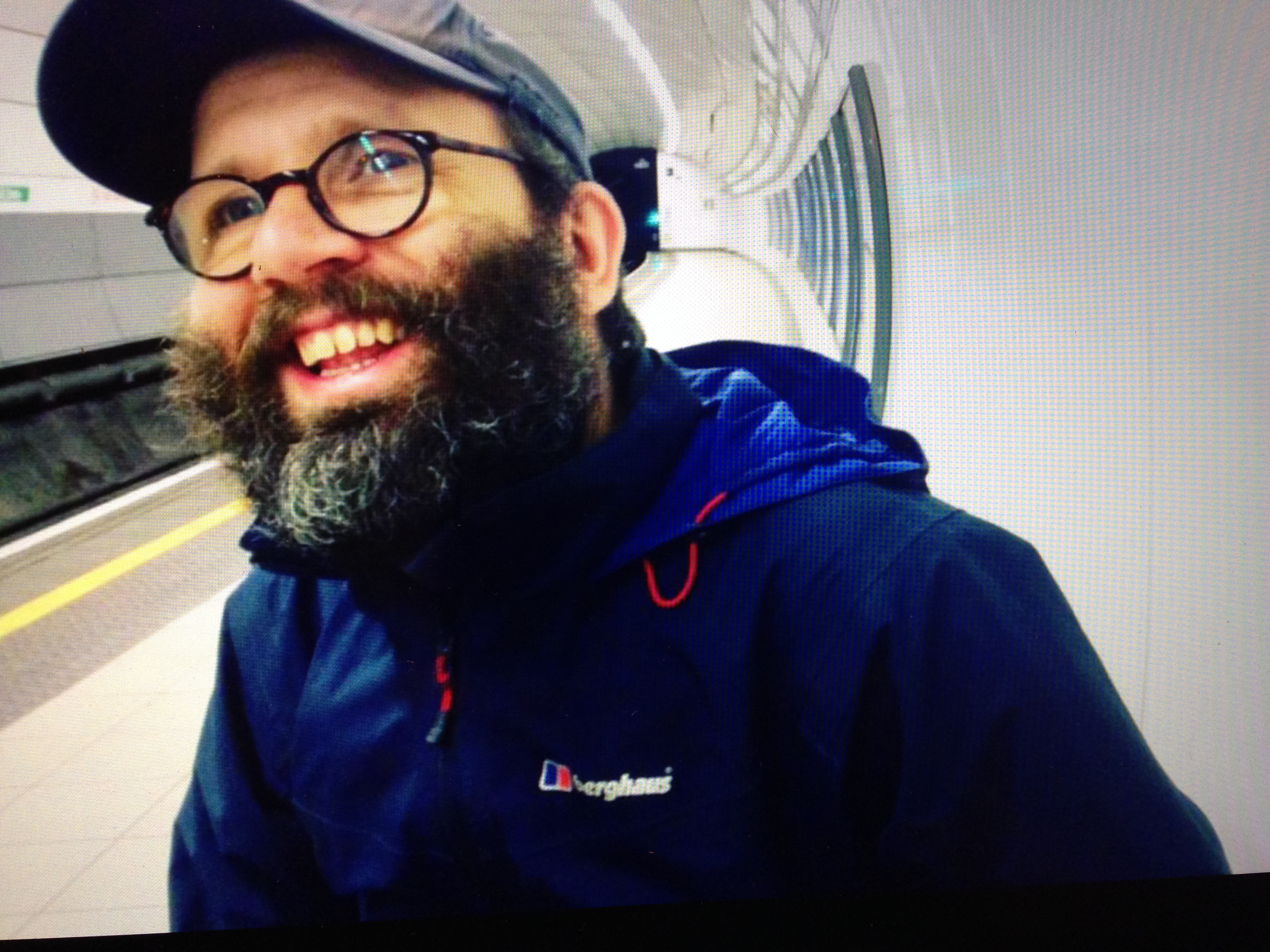 Daniel Smiling